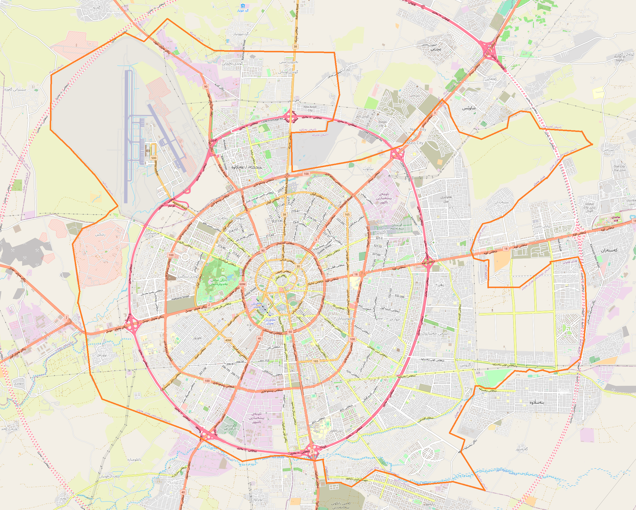 Map of Arbil Geographic limits of the map: N: 36.25° S: 36.14° W: 43.95° E: 44.07°